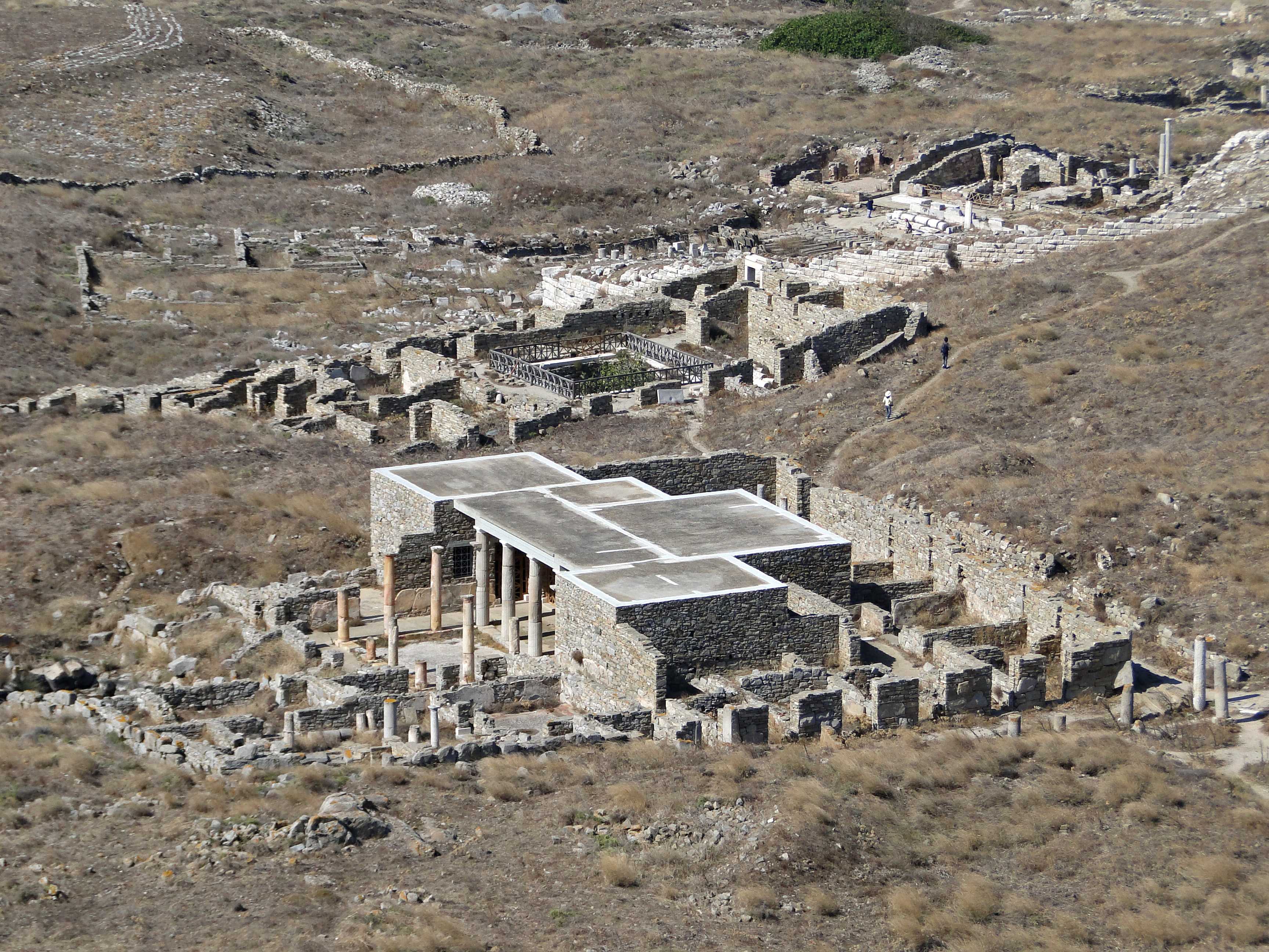 House of the Masks in Delos, Greece